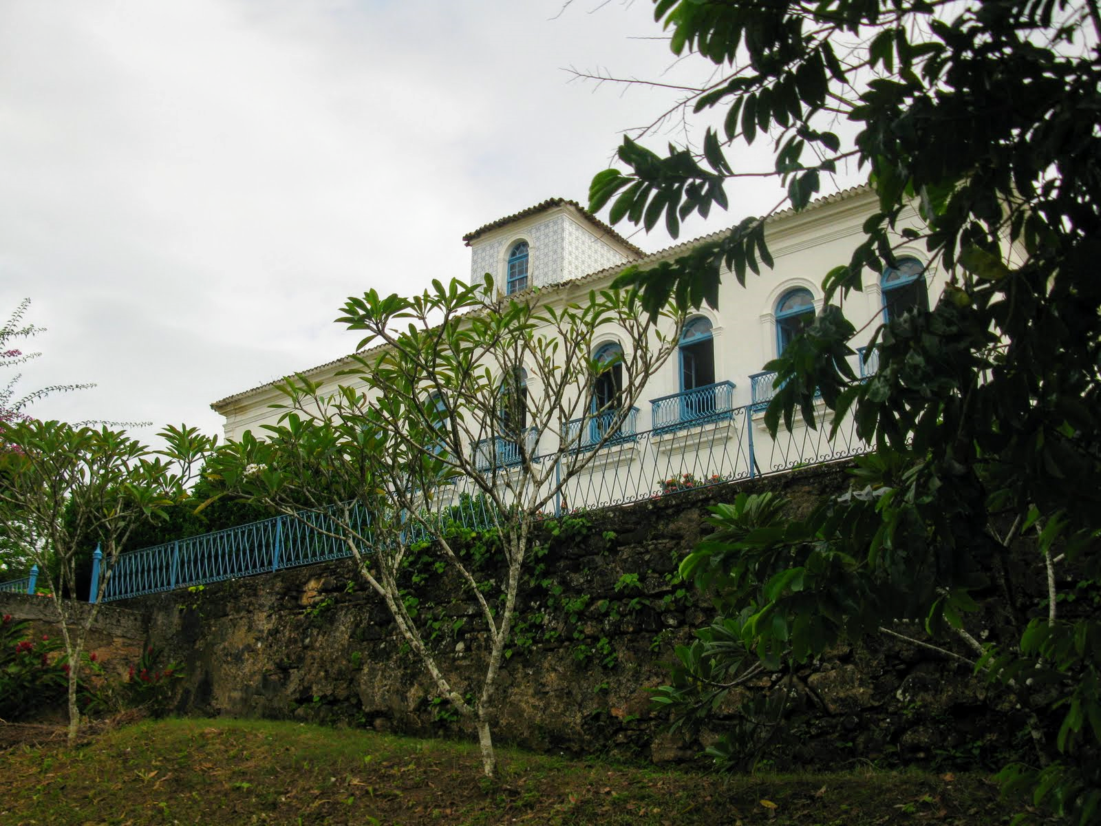 Casa-grande do Engenho Gaipió, de estilo arquitetônico neoclássico, concluída em 1863.